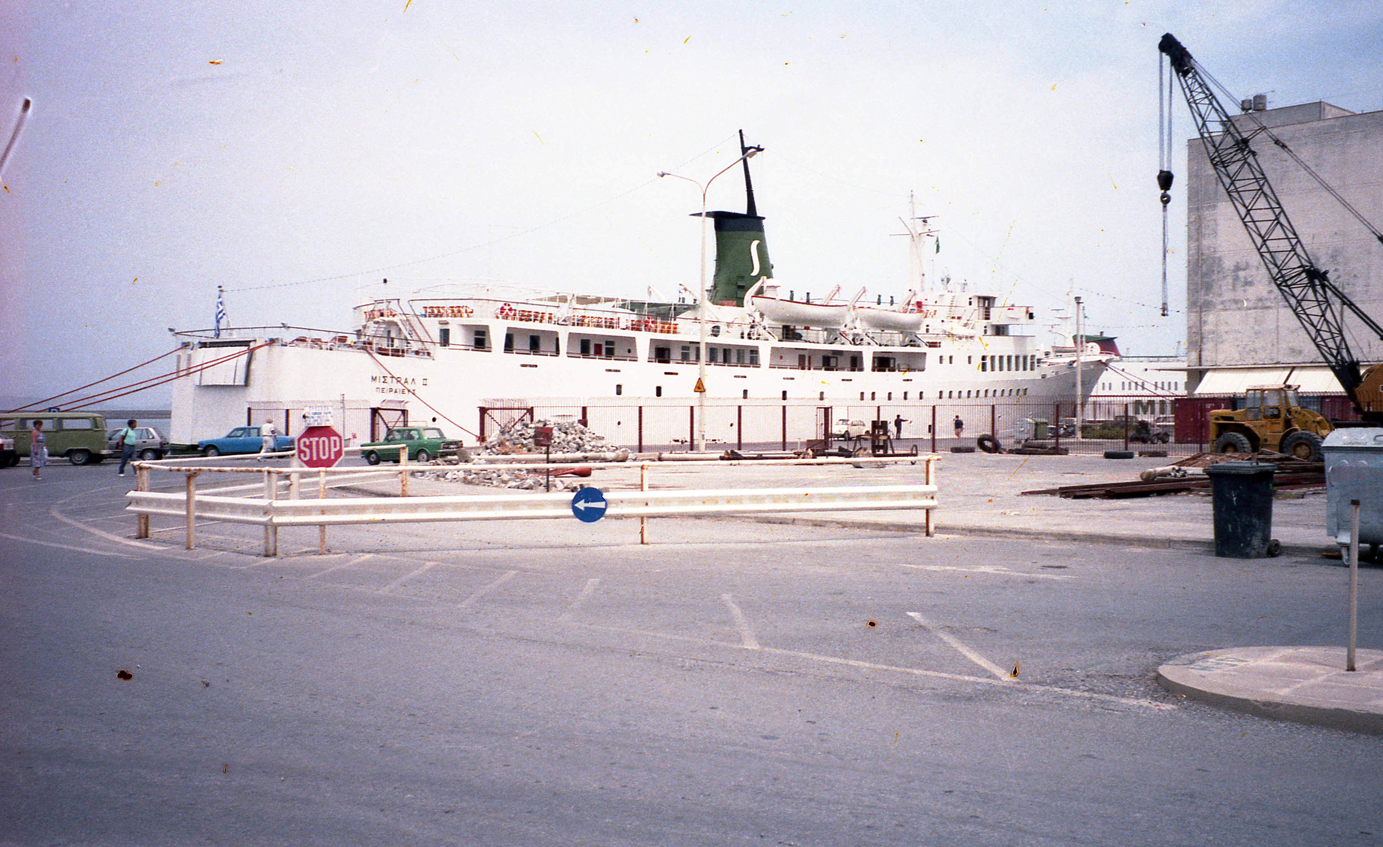 Around Heraklion, Crete, Greece